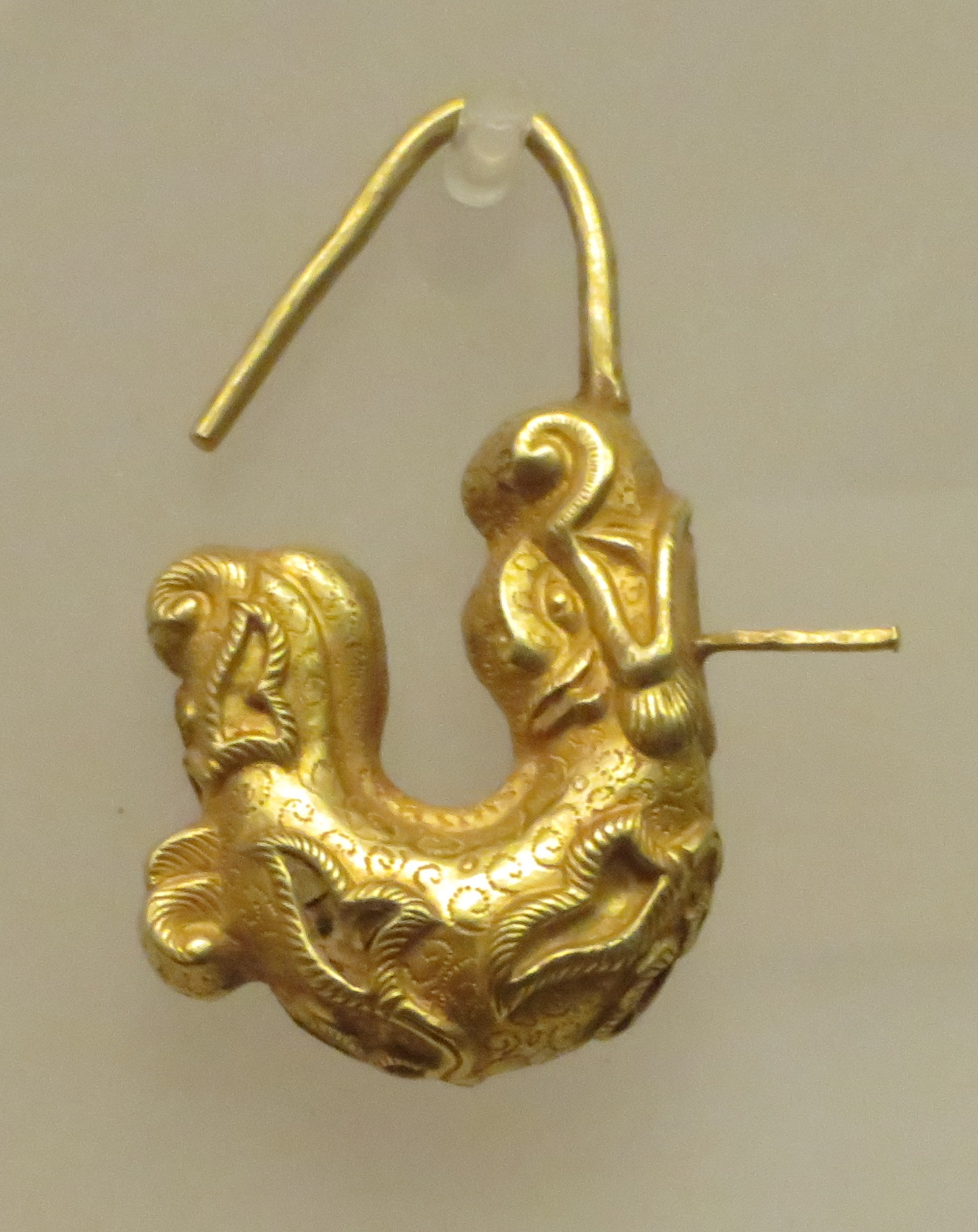 Gold earring with makara pattern. Liao dynasty.